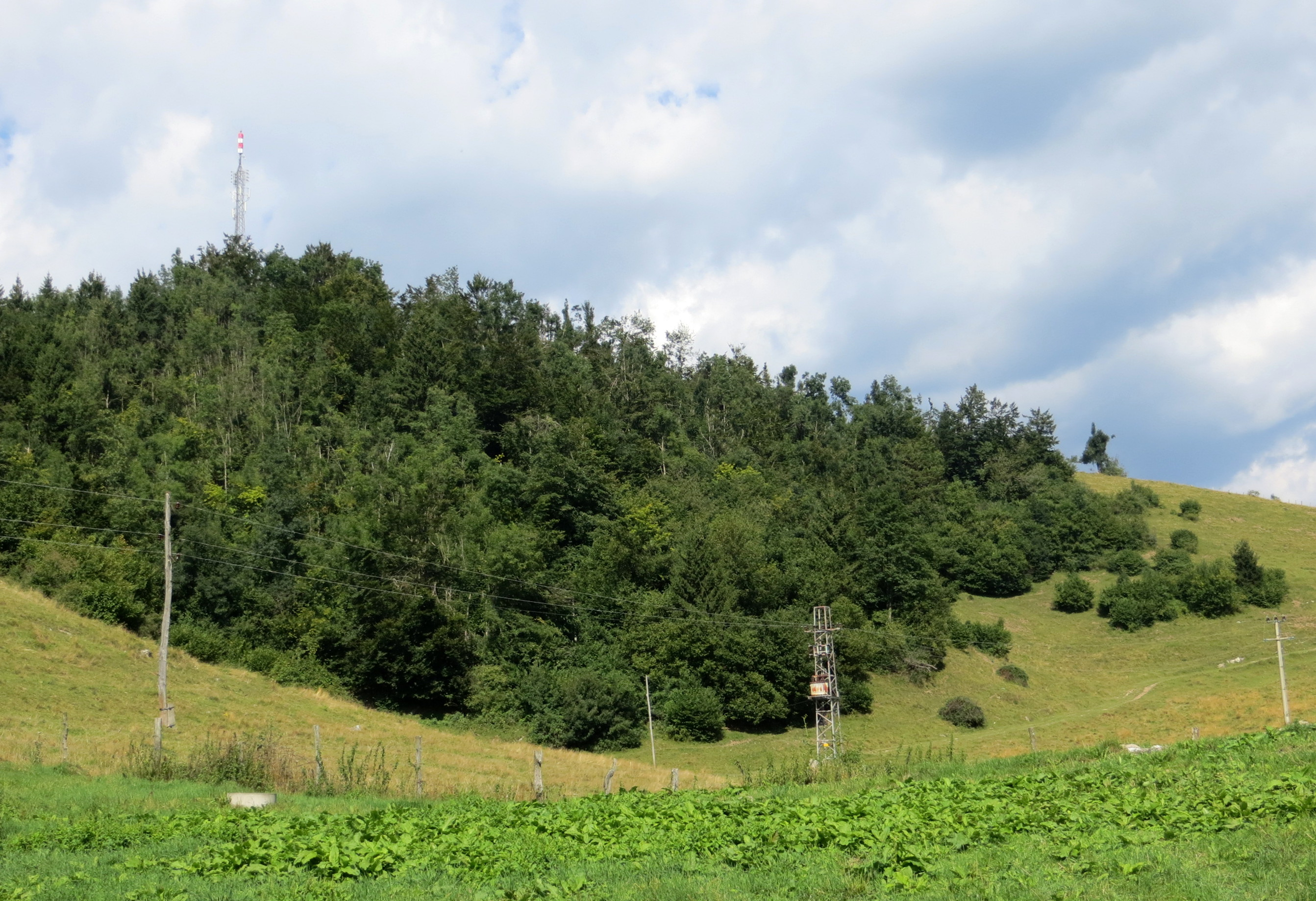 Črv Peak (Črvov vrh) seen from the south in Gorski Vrh, Municipality of Tolmin, Slovenia